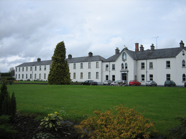 Franciscan Friary, Multyfarnham. Founded in 1268. Between 1590 and 1617, it was raided six times and twice burnt by the English. When Mons. Massari came here in 1646, there were 30 friars here. In 1766 there were seven friars but five were very old. The church was unroofed from 1651 to 1827. A new friary was built in 1839. A seraphic college was opened in 1899, there being only four pupils the first year. This became an agricultural college in 1956, and continued as such until 2003.